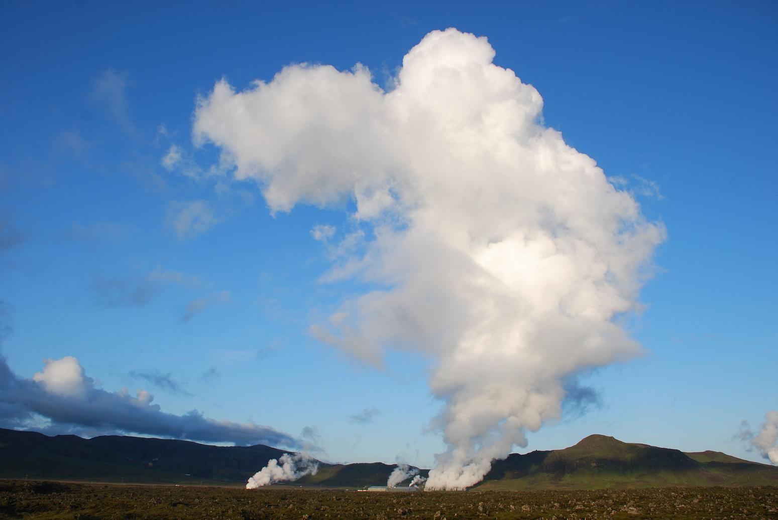 Anthropocumulus cloud at Nesjavellir (Iceland, August 2009)..